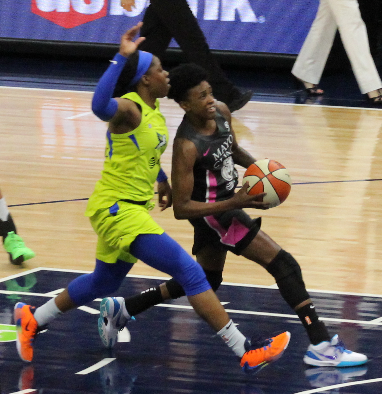 Danielle Robinson of the Minnesota Lynx scoring against Arike Ogunbowale of the Dallas Wings